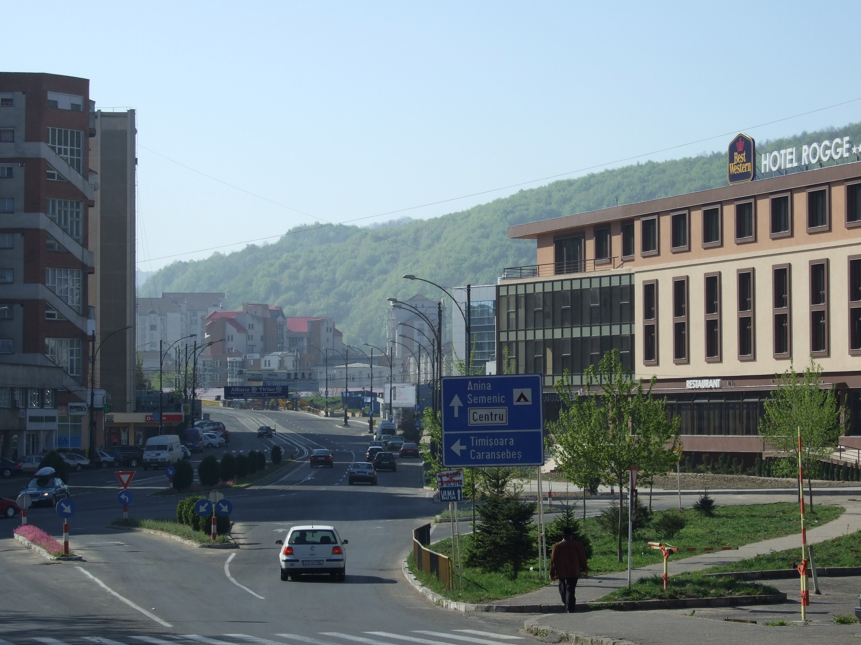 Boulevard Crossing between "Spitalului" street, "Revoluţia din Decembrie" street and "Ion Luca Caragiale" street in Reşiţa, Romania. (camera's angle view is standing with the back to "Spitalului" street)